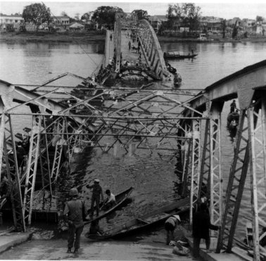 One of the collapsed bridges across the Perfume River connecting the new city with the Citadel, destroyed by the NVA